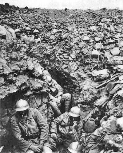 French soldiers of the 87th Regiment shelter in their trenches at Côte (Hill) 304 at Verdun